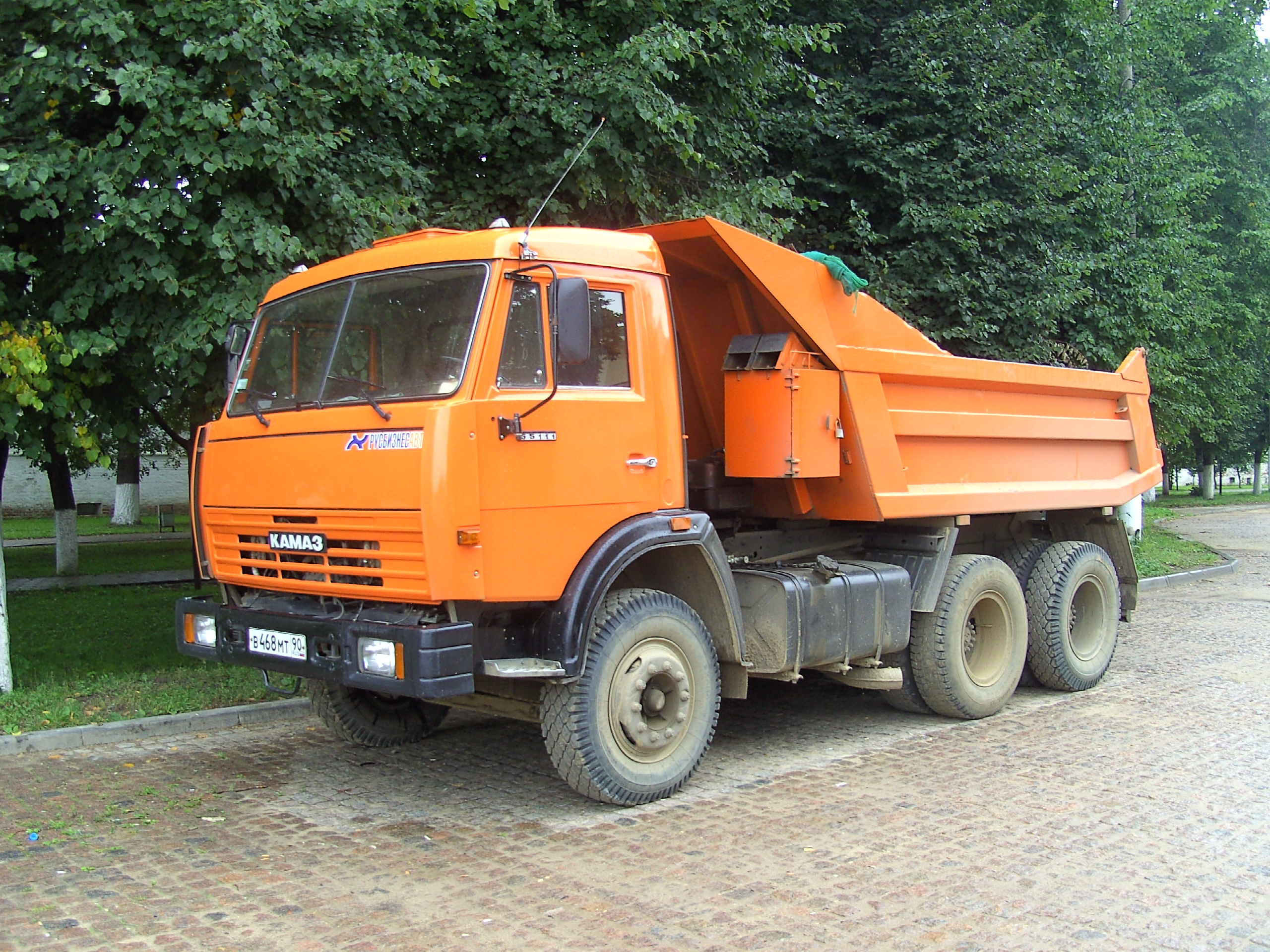 A Kamaz 55111 in Russia (Moscow Oblast, Sergiyev Posad).